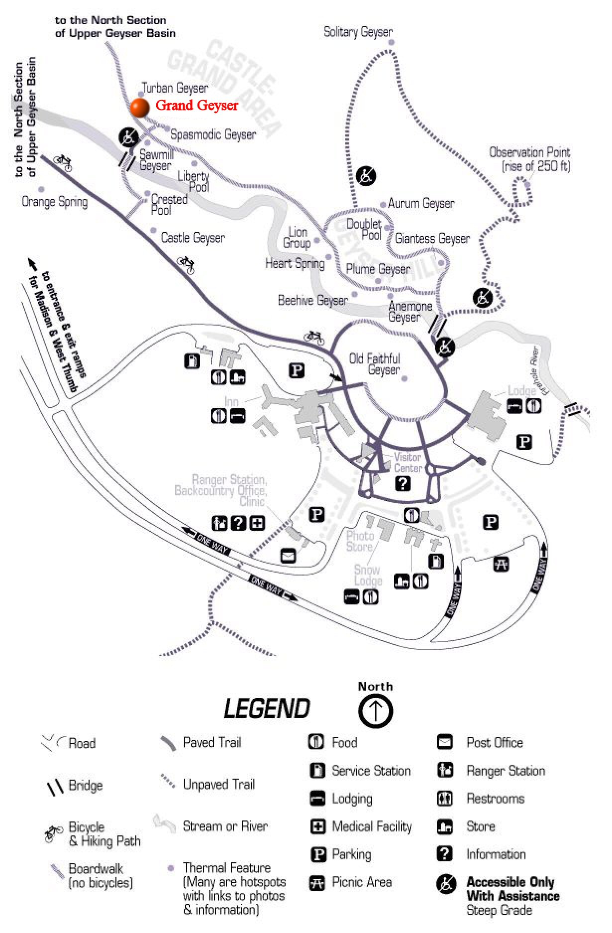 Southern section Upper Geyser Basin, Yellowstone National Park with Grand Geyser annotated